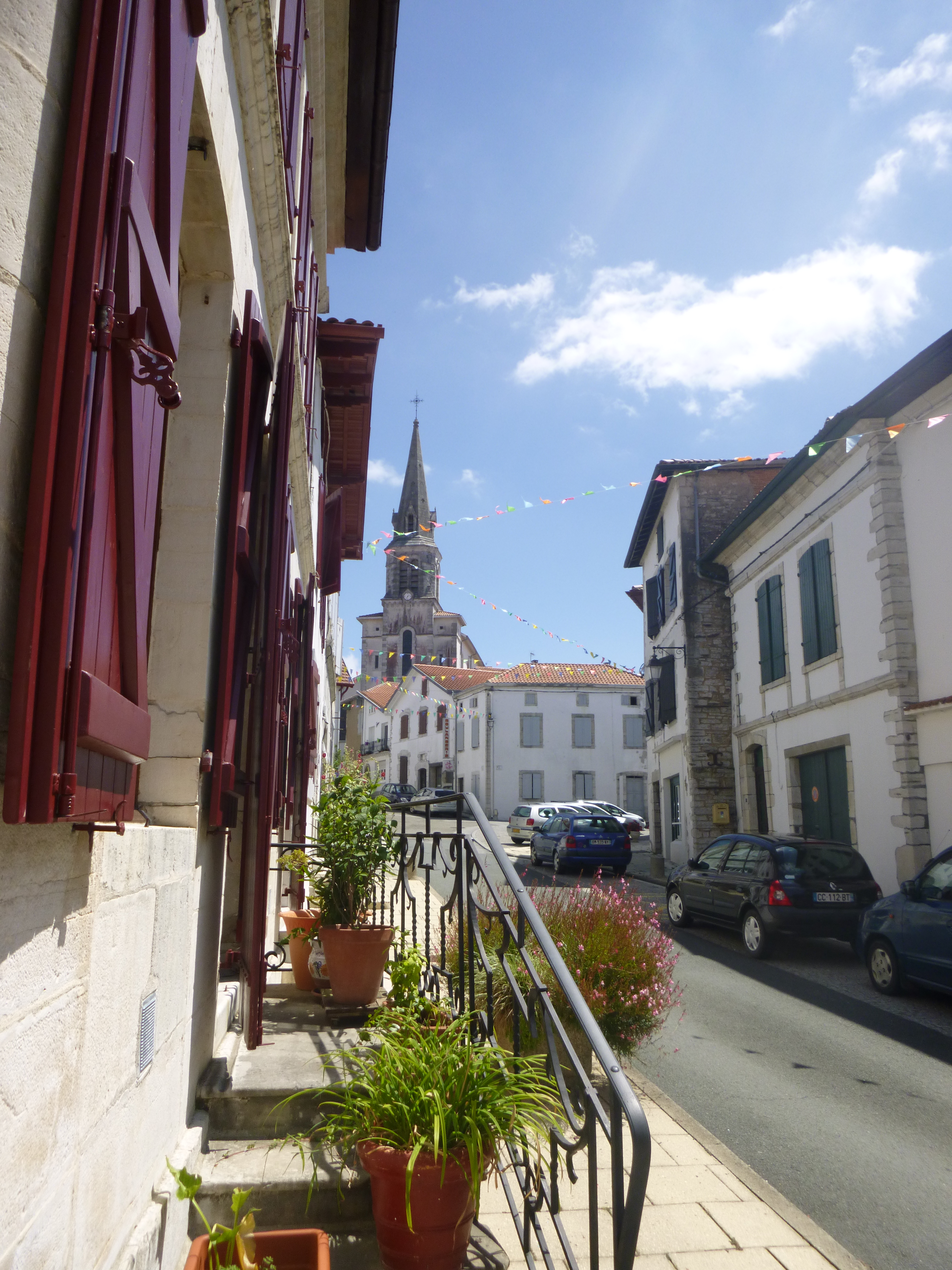 Main street in Bidaxune